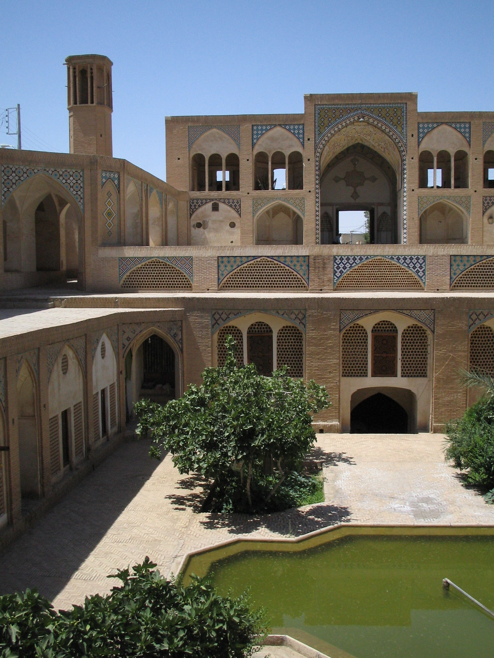 The yard of a madreseh in Kashan, Iran.